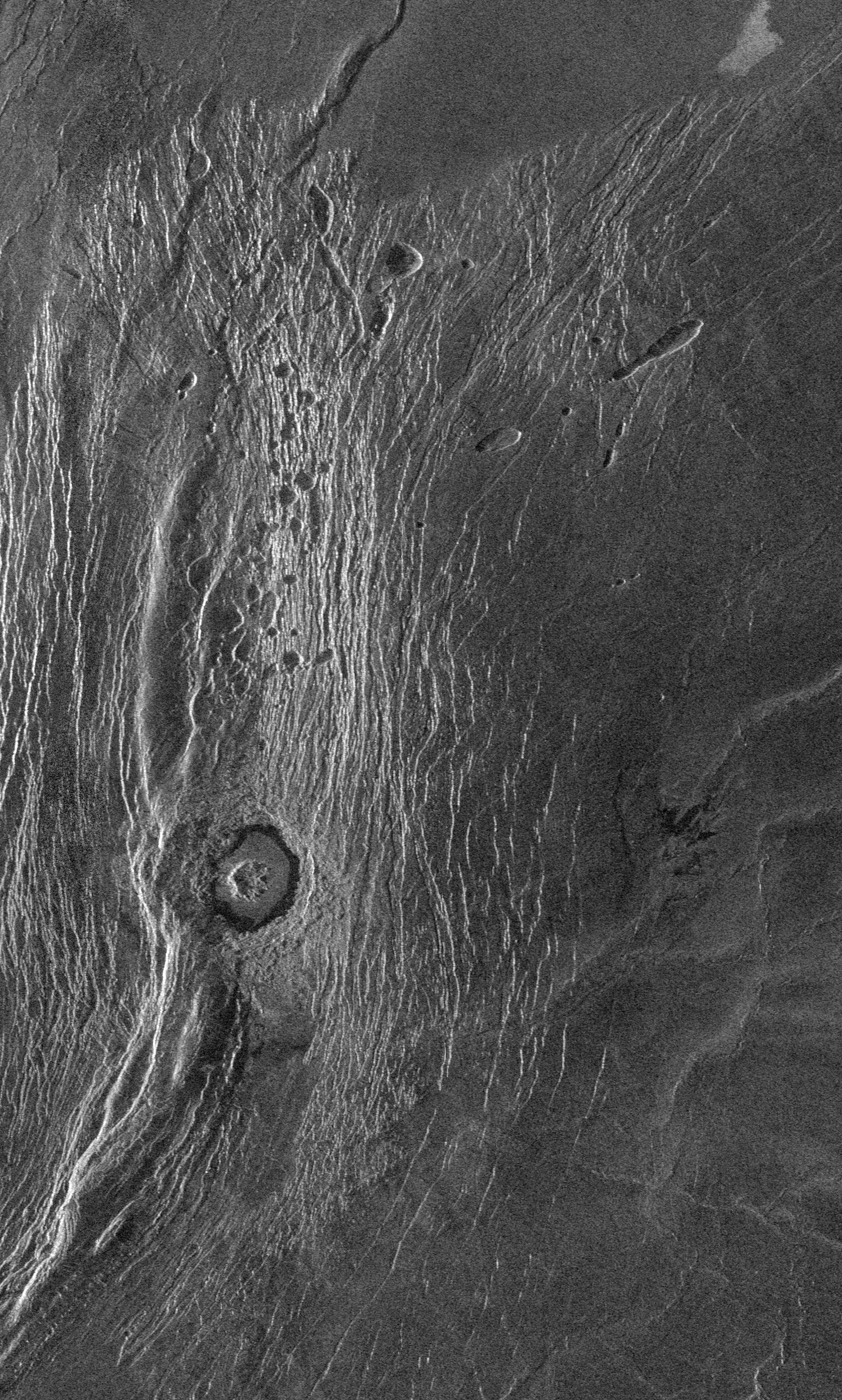 This Magellan full-resolution images show the northern part of the Akna Montes (mountains) of Venus. The Akna range is a north-south trending ridge belt that forms the western border of the elevated smooth plateau of Lakshmi Planum (plains). The Lakshmi plateau plains are formed by extensive volcanic eruptions and are bounded by mountain chains on all sides. The plains appear to be deformed near the mountains. This suggests that some of the mountain building activity occurred after the plains formed. An impact crater (Official International Astronomical Union name 'Wanda,' mapped first by the Soviet Venera 15/16 mission in 1984 at low resolution) with a diameter of 22 kilometers (14 miles) was formed by the impact of an asteroid in the Akna mountains. The crater has a rugged central peak and a smooth radar-dark floor, probably volcanic material. The crater does not appear to be much deformed by later crustal movement that uplifted the mountains and crumpled the plains. Material from the adjacent mountain ridge to the west, however, appears to have collapsed into the crater. Small pits seen to the north of the crater may be volcanic collapse pits a few kilometers across (1-2 miles). The ridge of the Akna mountains immediately to the west of the crater is 8 kilometers wide (5 miles). The area imaged is approximately 200 kilometers long and 125 kilometers wide (130 by 80 miles). This area is centered at 71.5 degrees north latitude, 324 degrees east longitude. The resolution of the Magellan radar system is 120 meters (400 feet). At this latitude the radar views the surface from an angle of 23 degrees off vertical, creating a perspective as though a viewer were looking at the scene from the right (east) at an angle of 23 degrees above the surface.